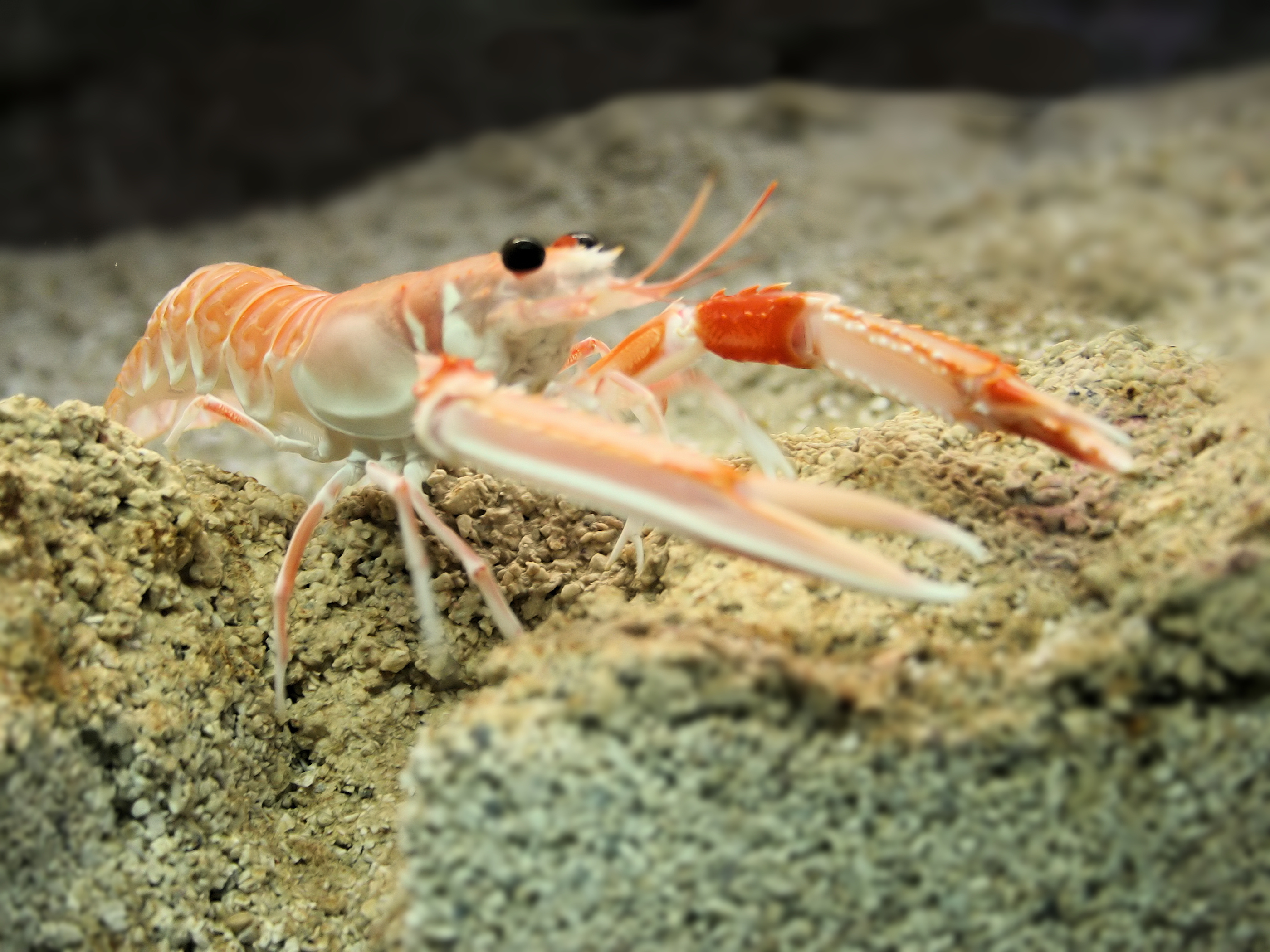 At the Cretaquarium near Heraklion, Crete.